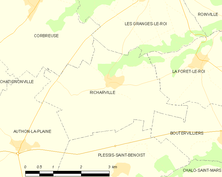 Map of French municipality Richarville